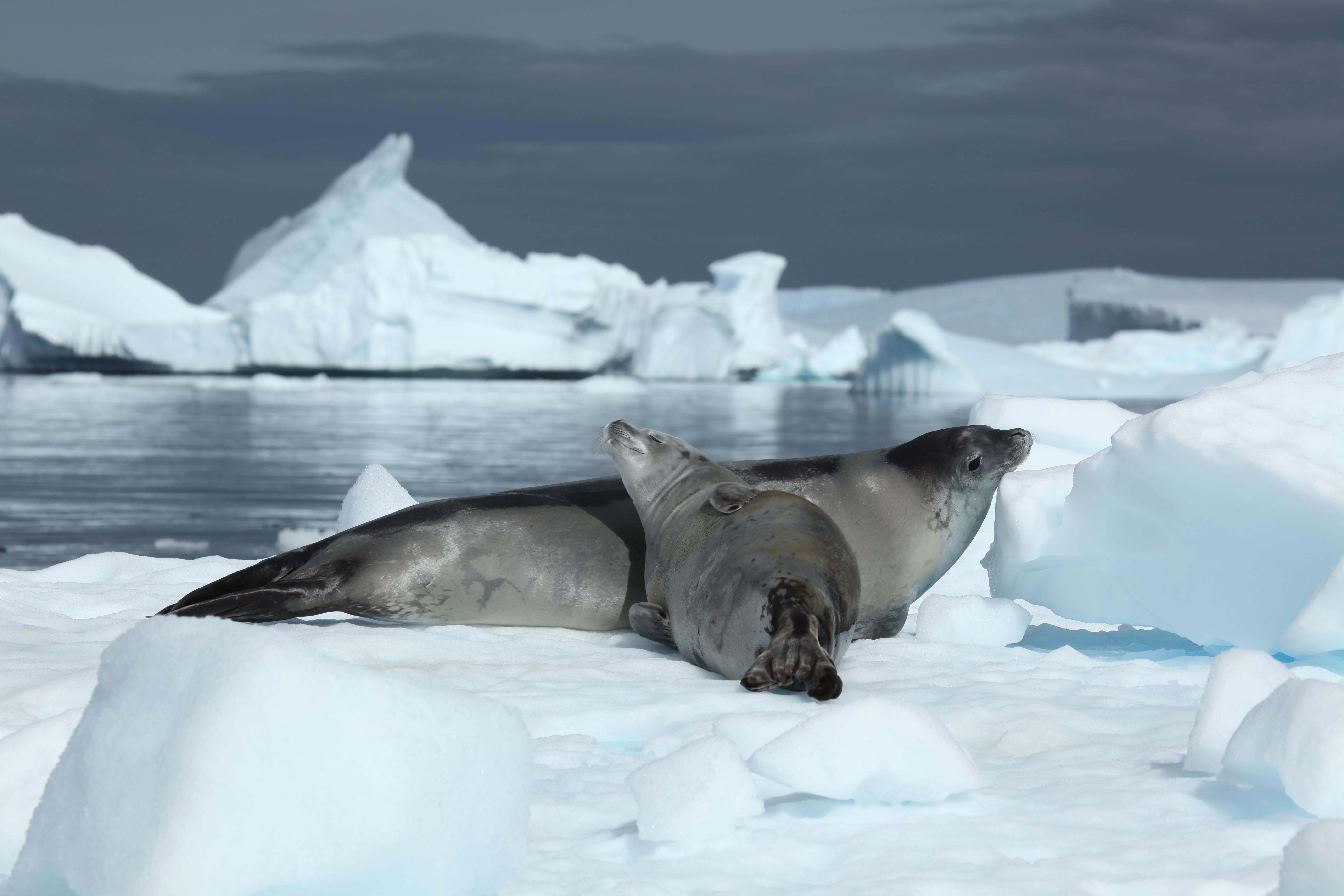 Crabeater Seals in Pléneau Bay, Antarctica